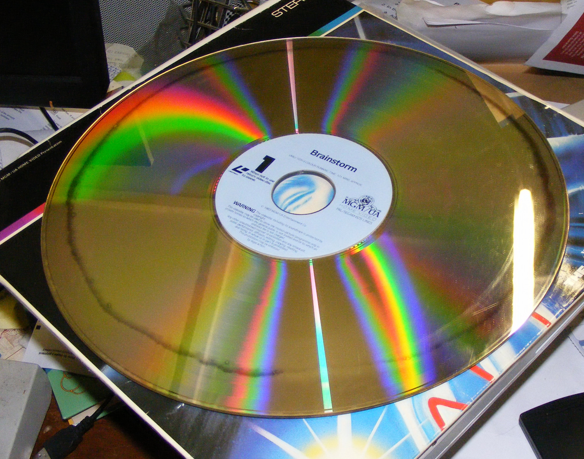 Laser disc (manufactured 1983) showing "laser rot" damage.